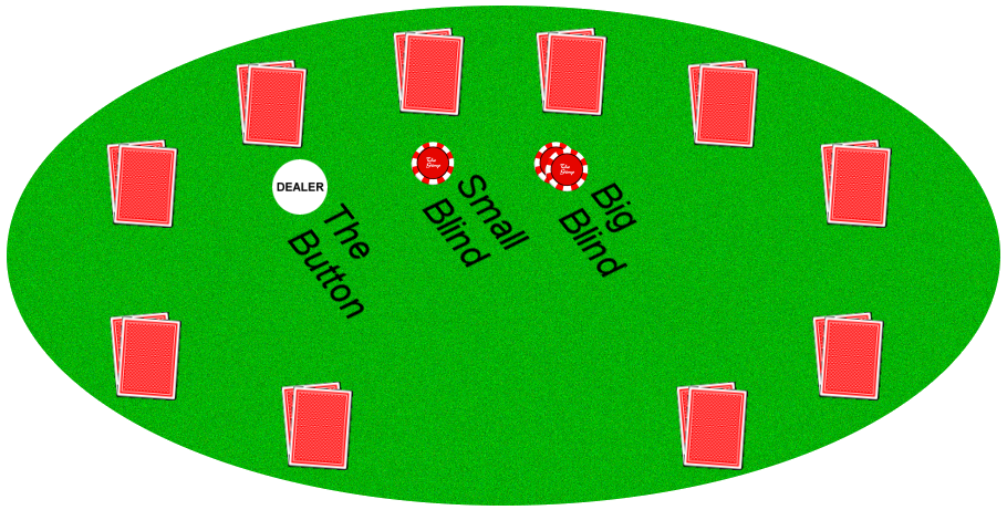 A picture of a texas hold'em poker table, with the button, small blind, and big blind labeled